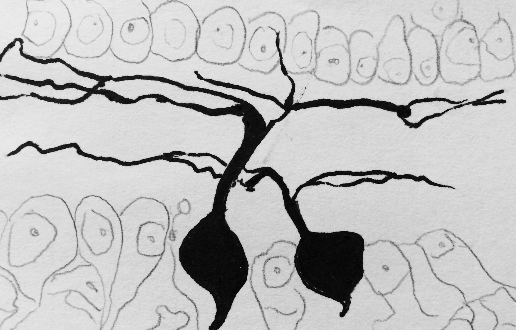 Parasol cell general structure including cell bodies and dendrites.